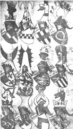 Folio 72 from Armorial Bellenville